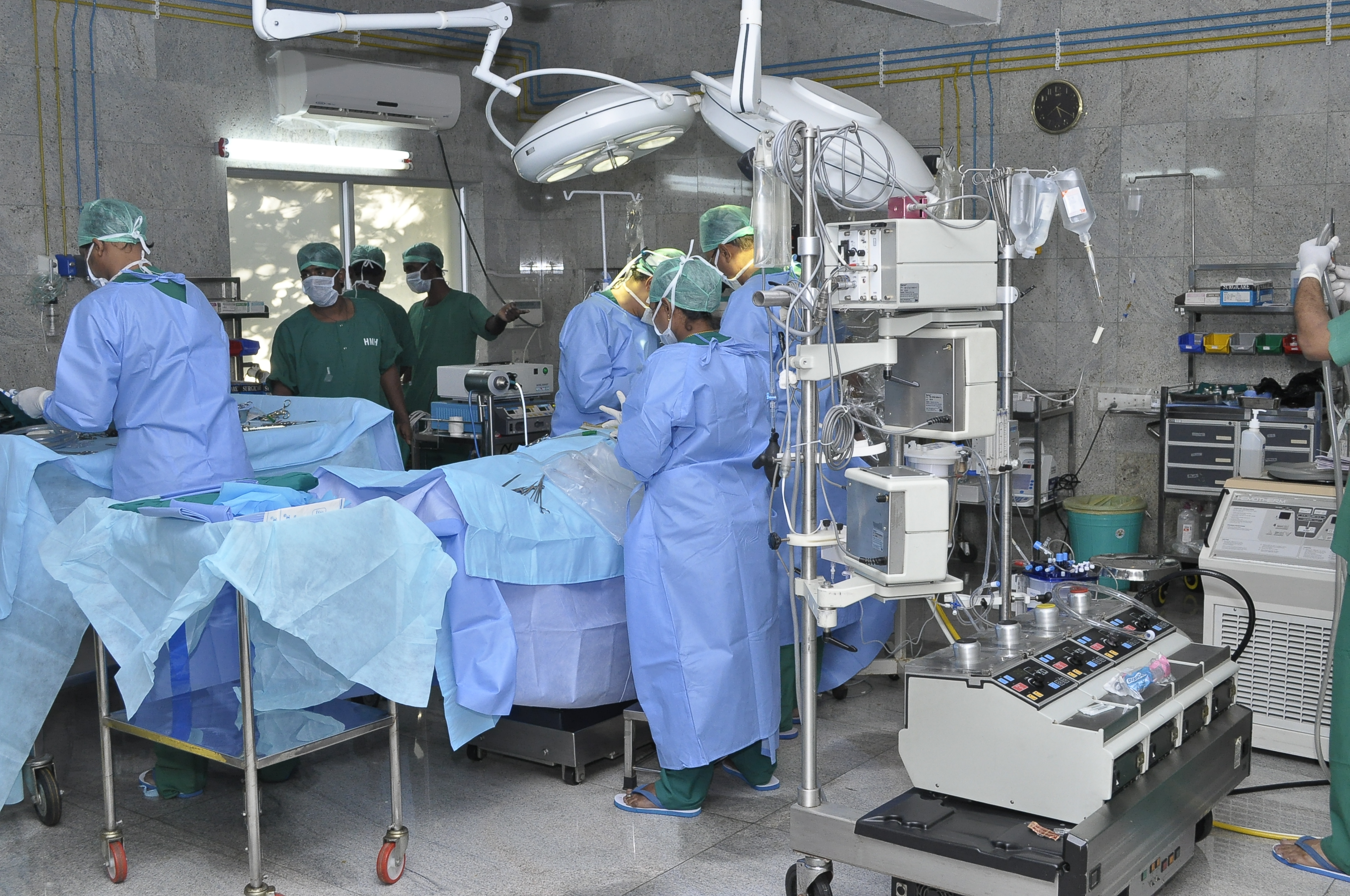 Cardio Thoracic Operation Theatre